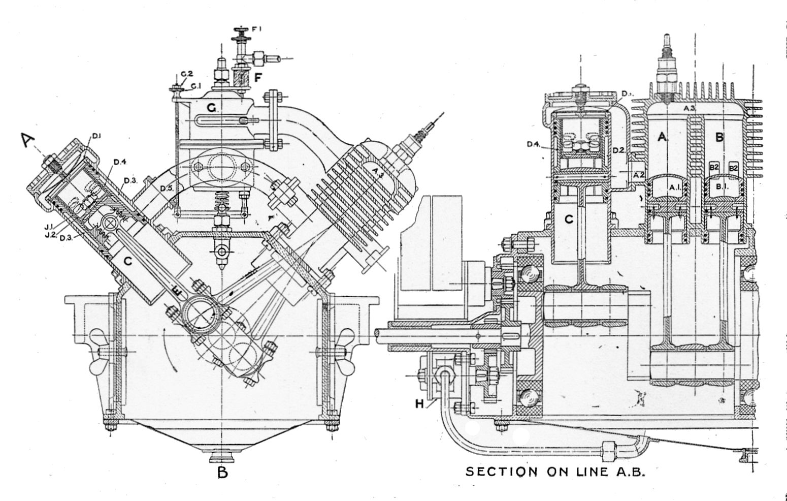 Lamplough's two-stroke engine, section (Rankin Kennedy, Modern Engines, Vol V).jpg